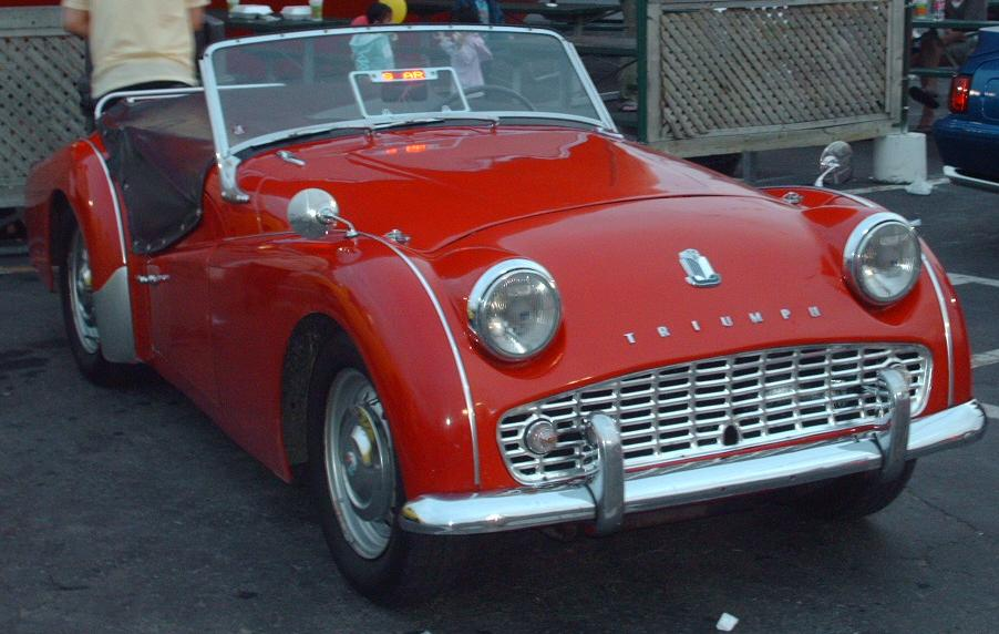 1957-1962 Triumph TR3A photographed in Montreal, Quebec, Canada at Gibeau Orange Julep.